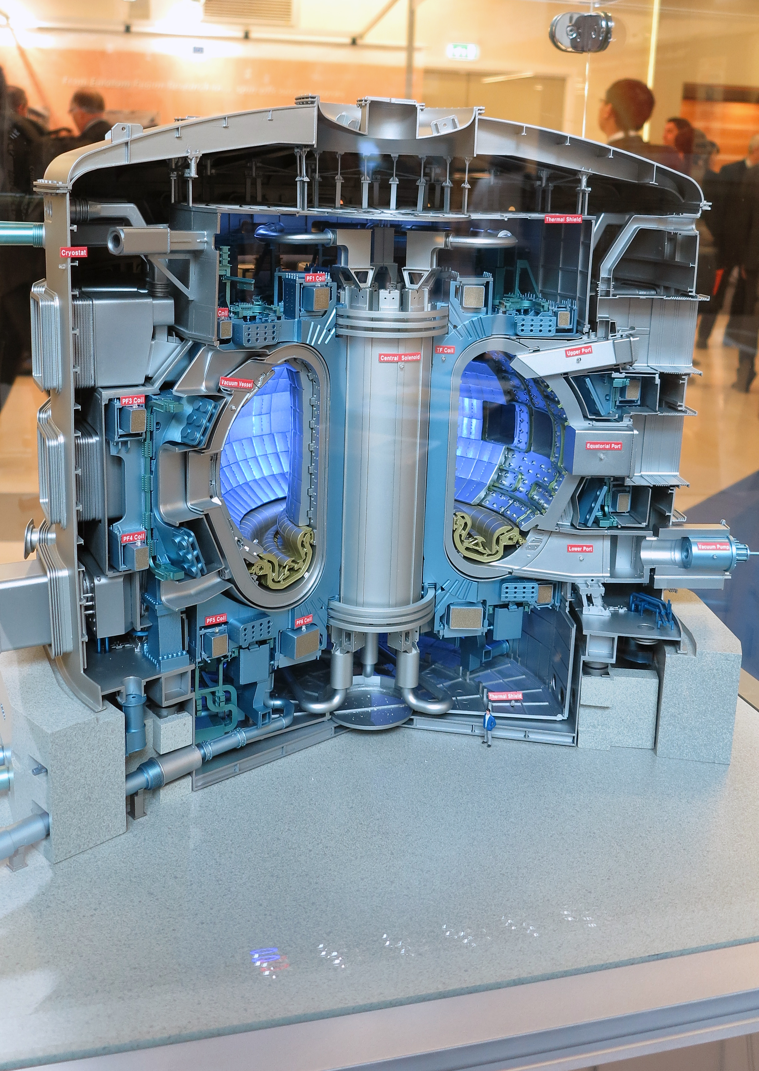 ITER exhibits at the International Fusion Energy Days 2013. Monaco. 2 December 2013 Photo Credit: Conleth Brady / IAEA